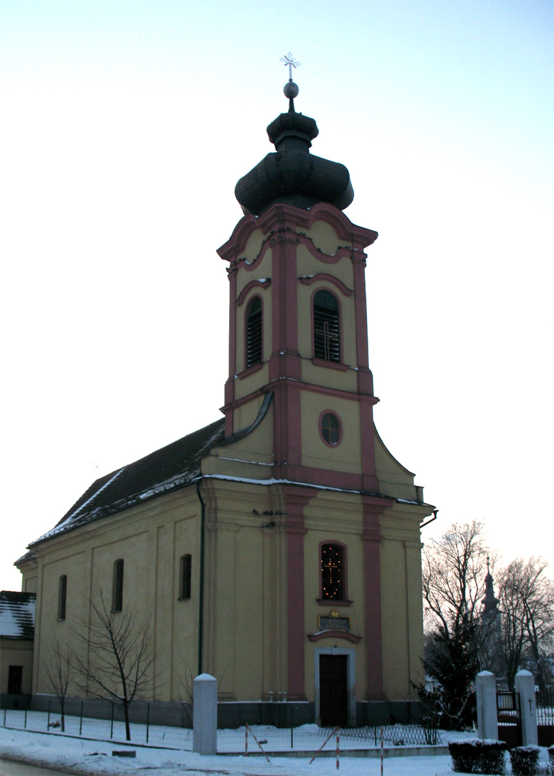 Cath. Church of Vlčany